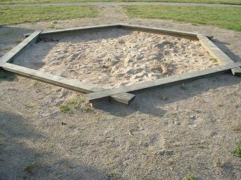 A sandbox. Image used for number of Wikipedia sandboxes.